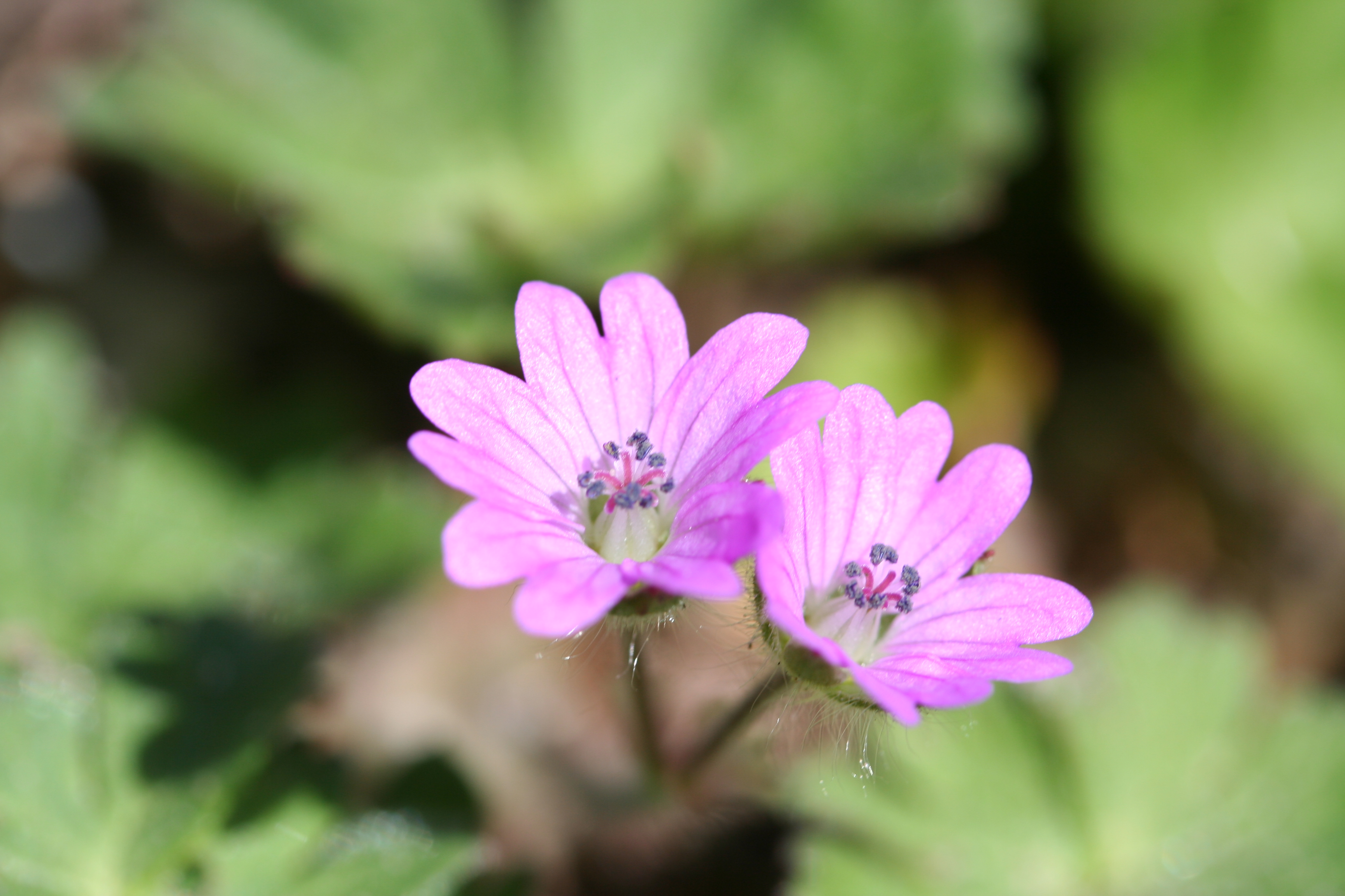 Geranium molle 29 april 2006 IJmuiden, the Netherlands